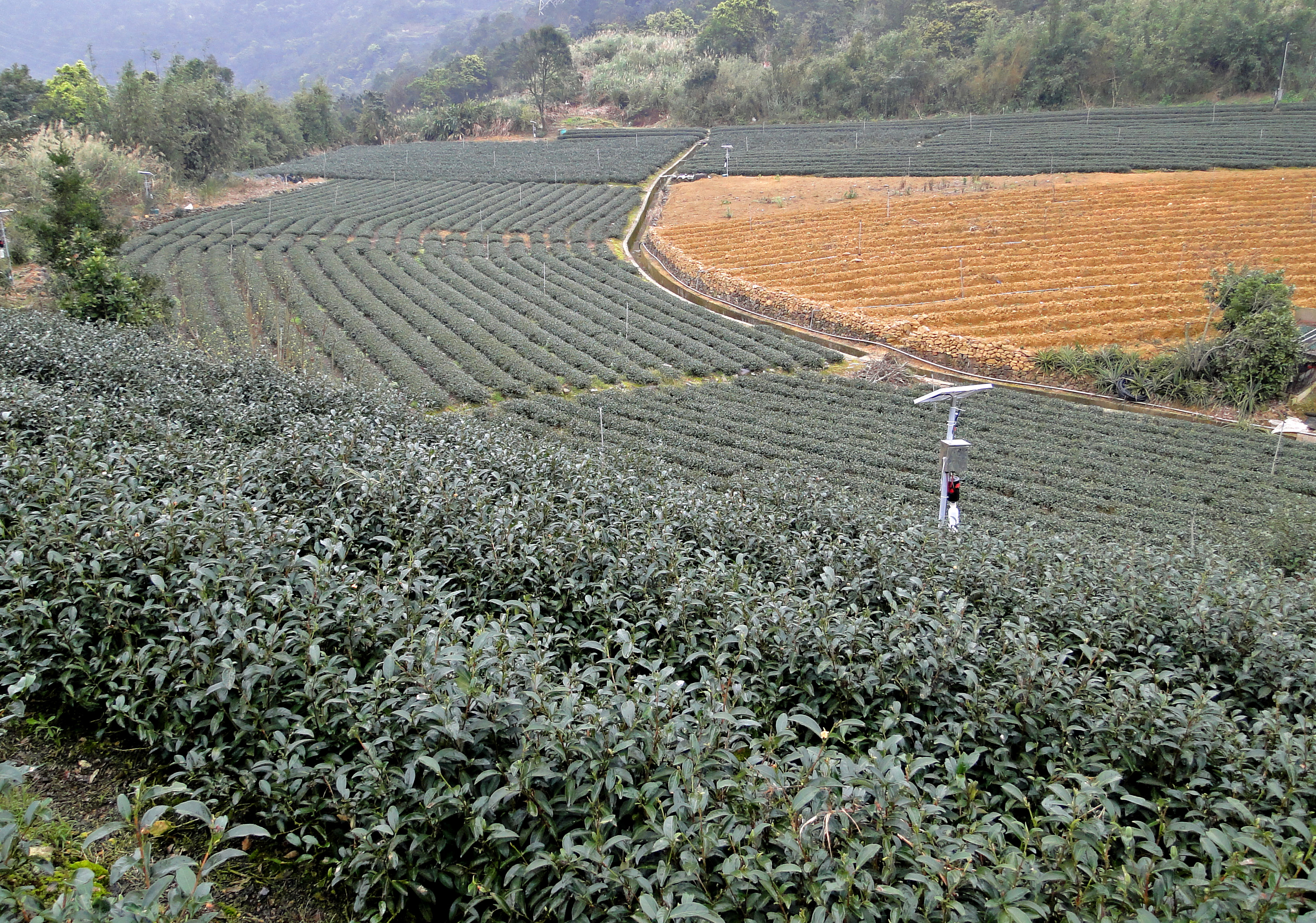 Tea plantation in Pinglin District, New Taipei City, Taiwan